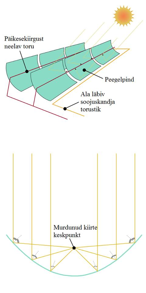 Parabolic trough